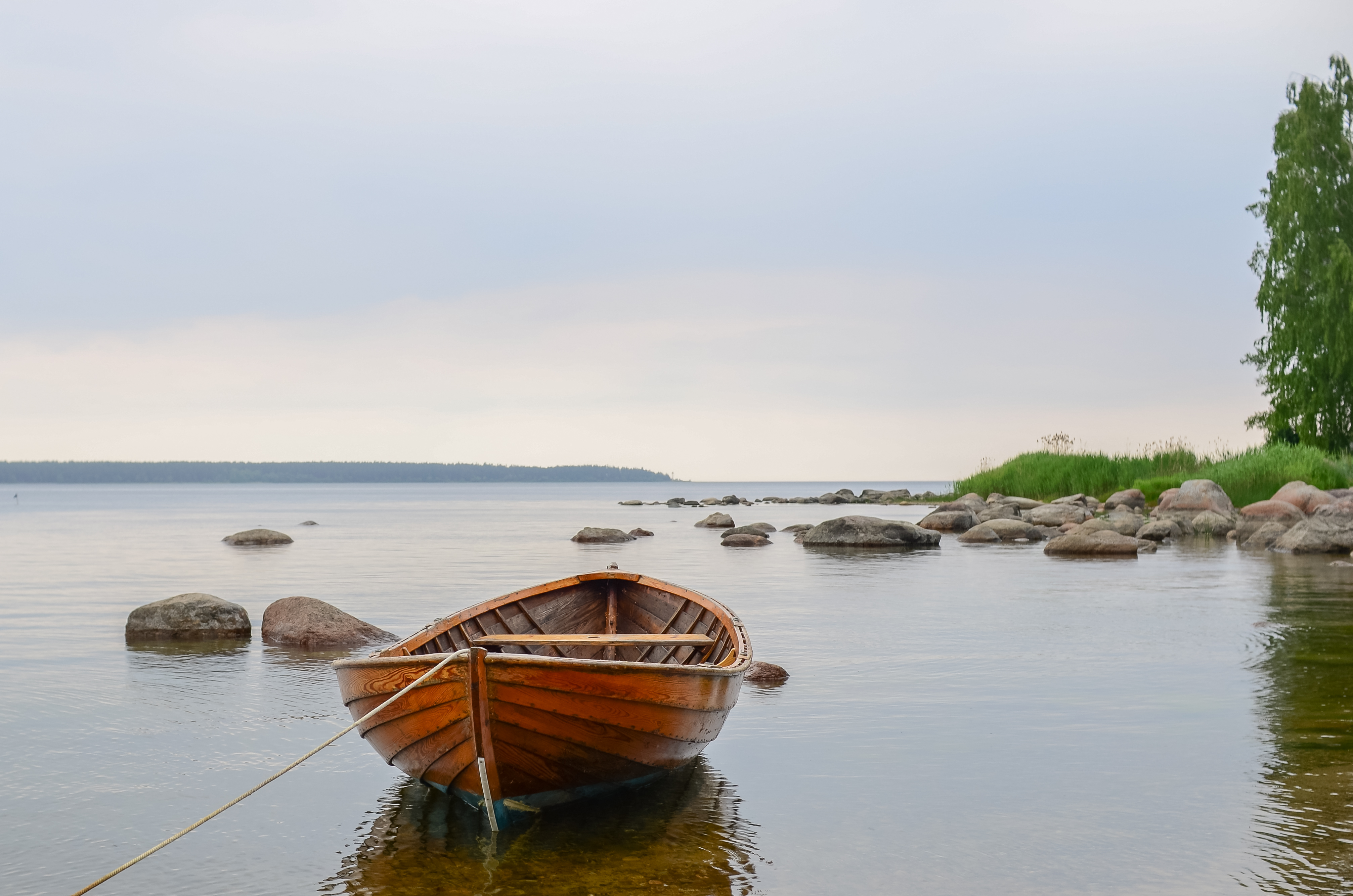 Seaside village of Käsmu in Lahemaa National Park, Estonia